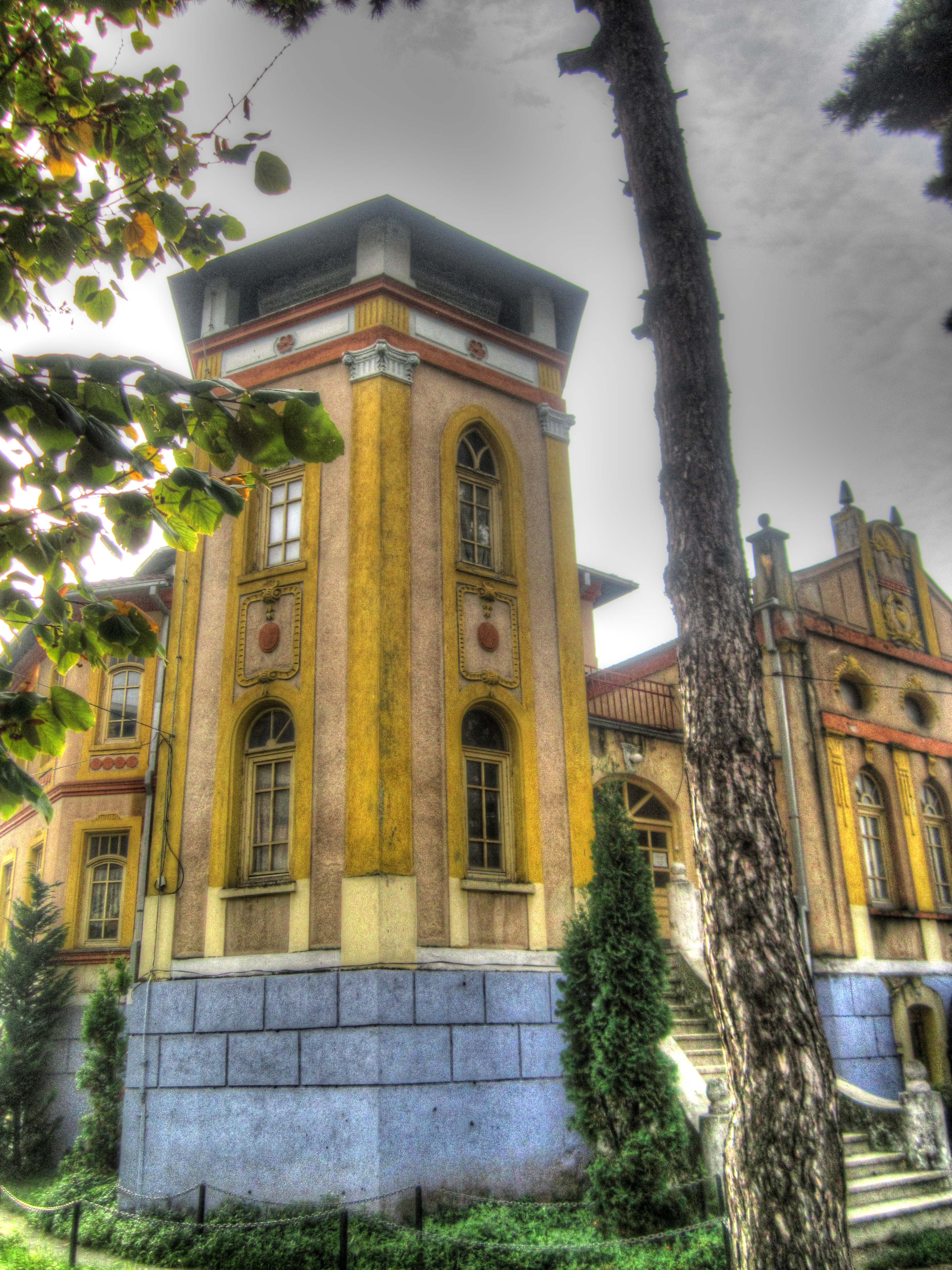 Alimbeg house is civilian healthcare facility or historic house which was earlier hospital in Tetovo